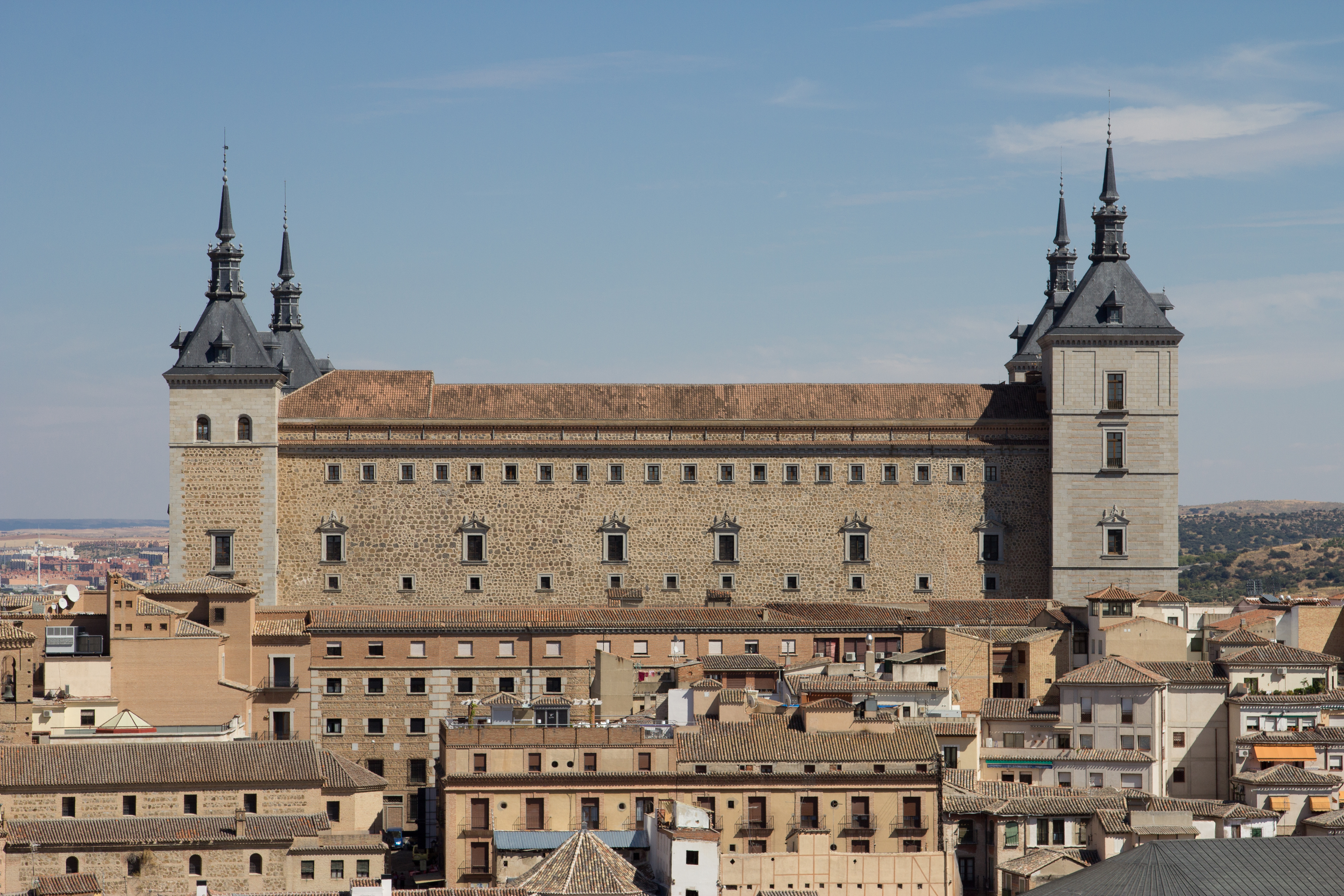 Alcázar of Toledo, Spain.